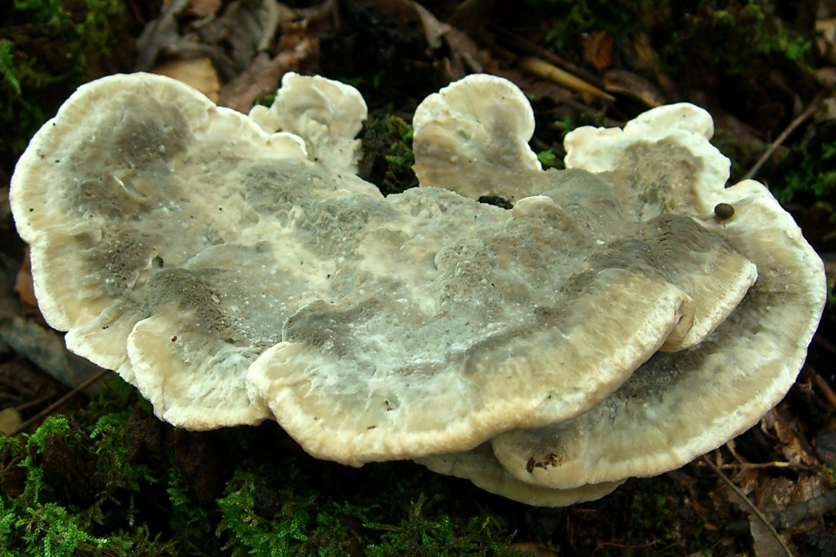 Scientific Name: Tyromyces galactinus Common Name: White Cheese Polypore Certainty: guess (notes) Location: Southern Appalachians; Smokies; CabinCove Date: 20060725